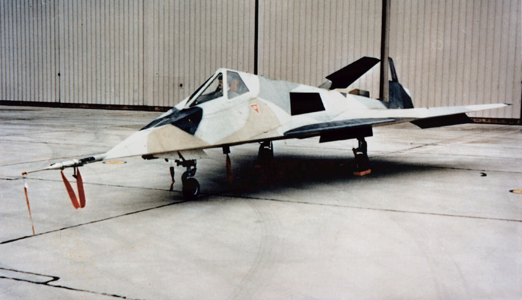 US Air Force photo to the DARPA / Lockheed Martin Have Blue prototype